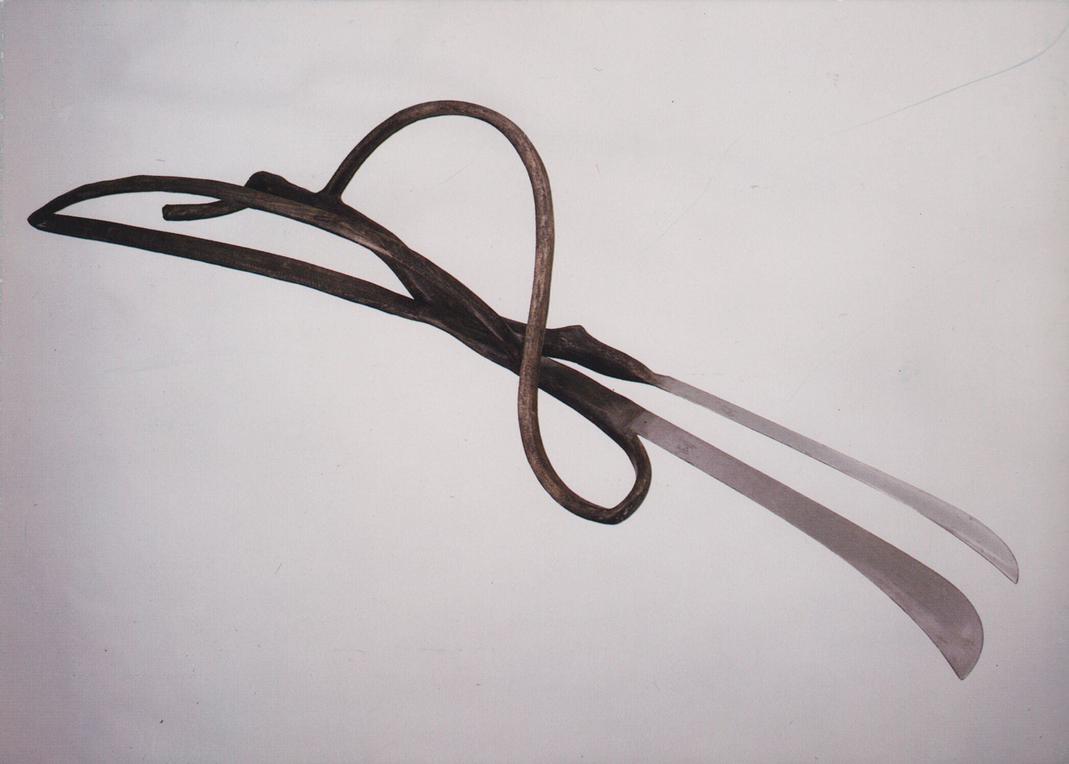 Slow Motion 192; 1990; 39x55x37”; wood, metal